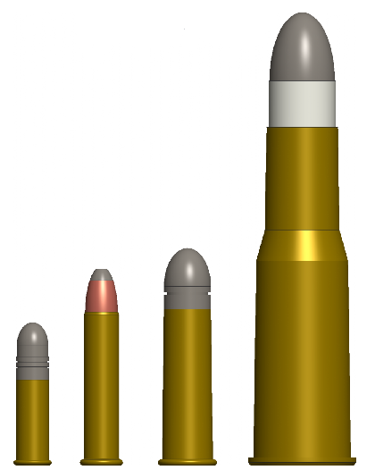 .22 LR, .22 WMR, .310 Cadet, .577/450 Martini-Henry